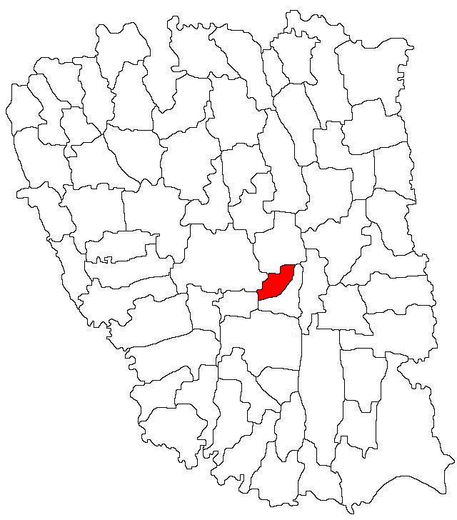 Limits o Suhurlui Commune in Galati County